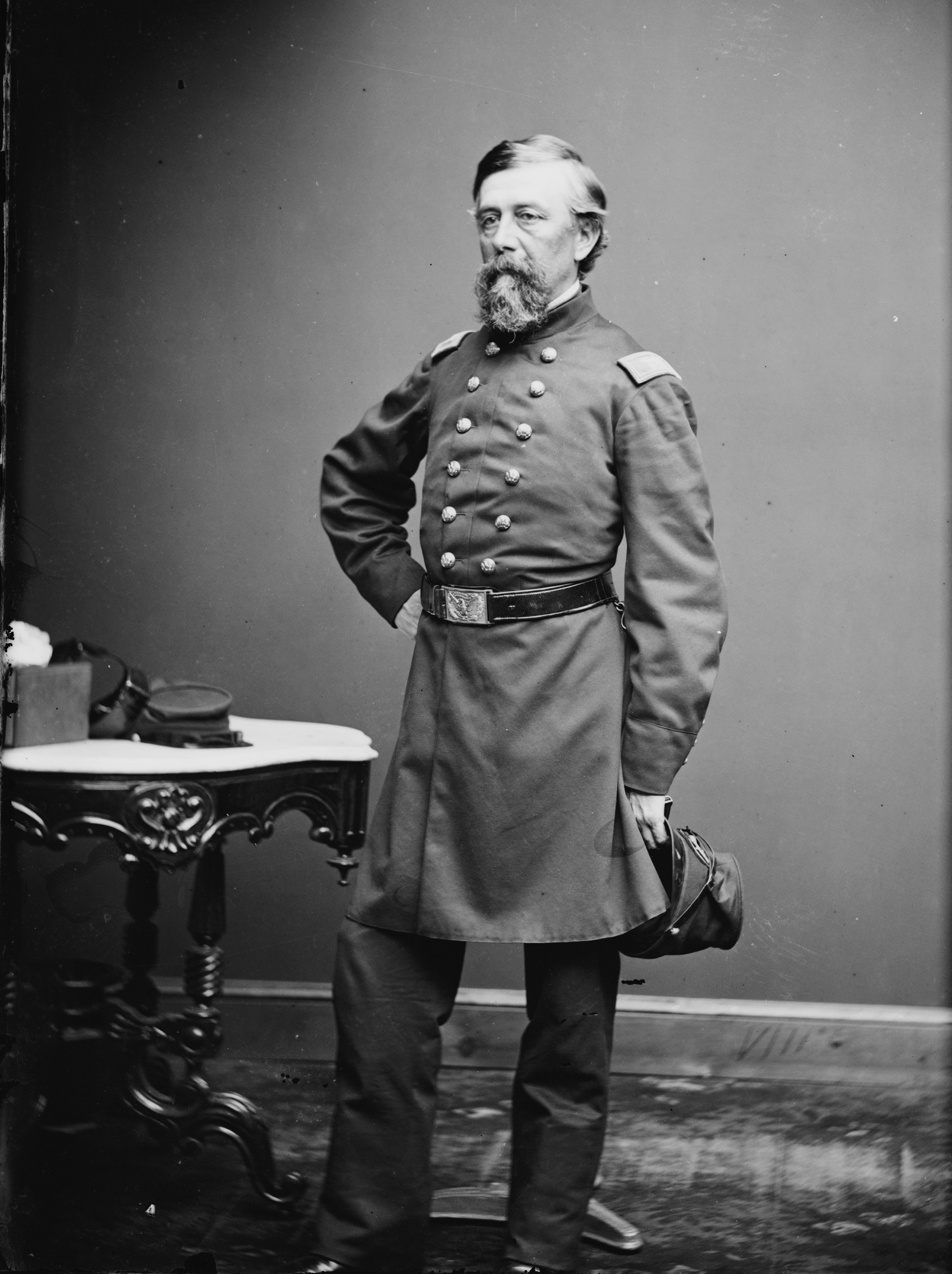 Colonel Fletcher Webster of the 12th Massachusetts Infantry, in full uniform, holding his kepi. To his left is a table, upon which another cover is placed. Cropped from the triptych of negatives from the Library of Congress. This image is available from the United States Library of Congress's Prints and Photographs division under the digital ID cwpb.04611.This tag does not indicate the copyright status of the attached work. A normal copyright tag is still required. See Commons:Licensing for more information.